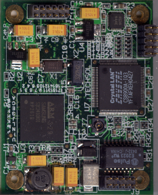 Officially a COTS project, this SBC, only 2/3 the size of a business card, was developed specifically to meet the needs of the Land Warrior Project for DARPA.